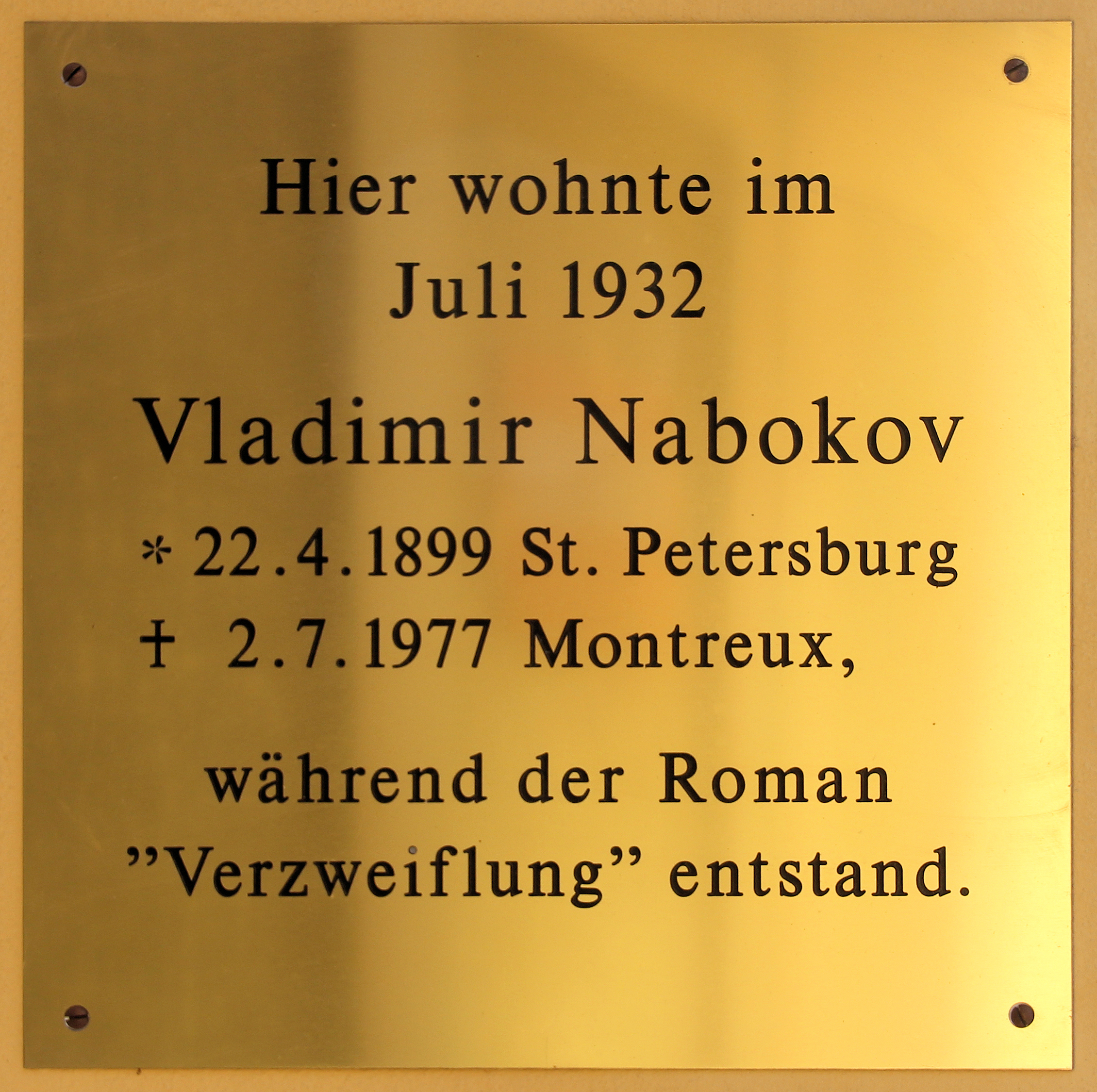 Memorial plaque, Vladimir Nabokov, Westfälische Straße 29, Berlin-Halensee, Germany